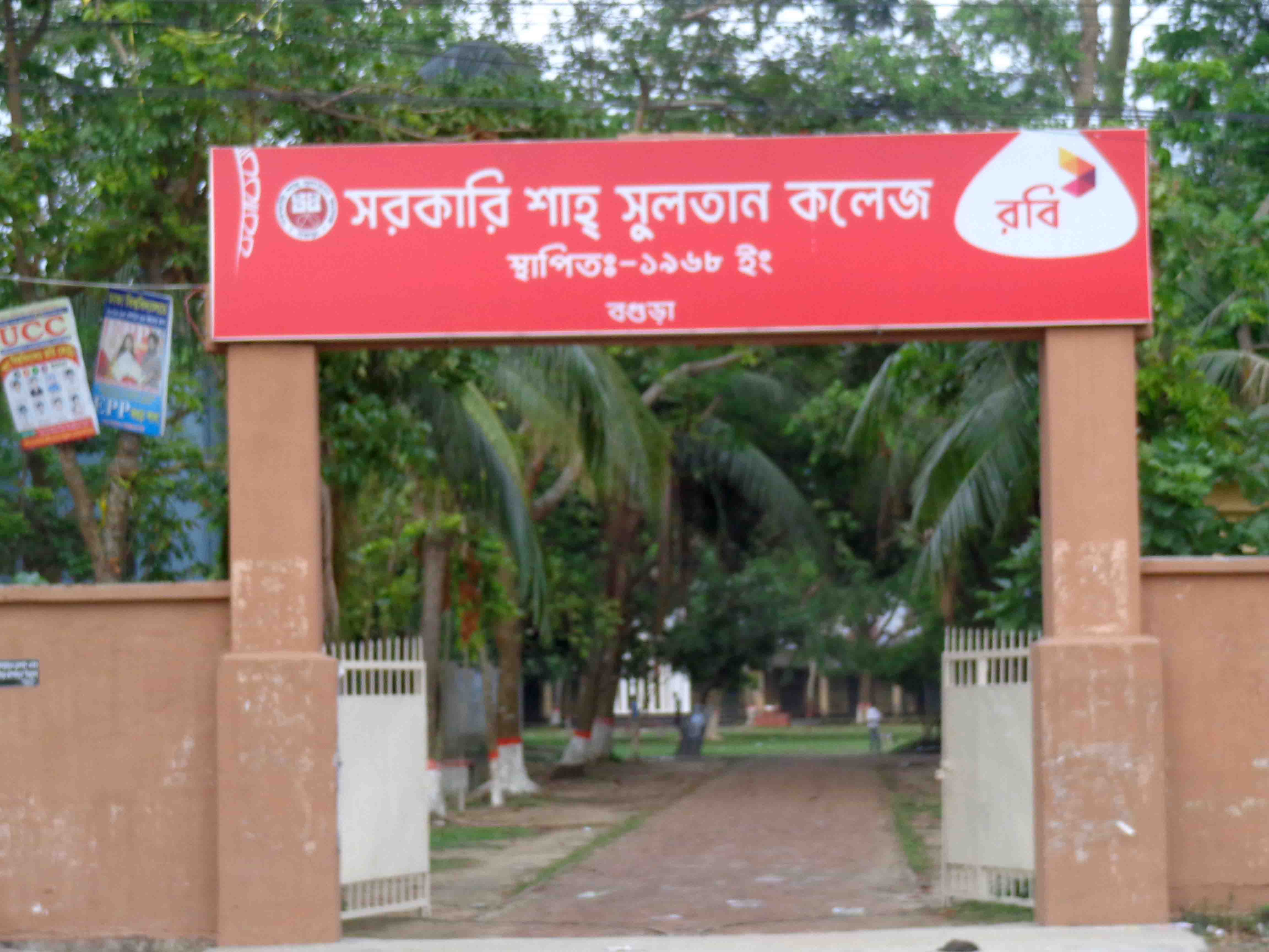 সরকারী শাহ সুলতান কলেজ, বগুড়া